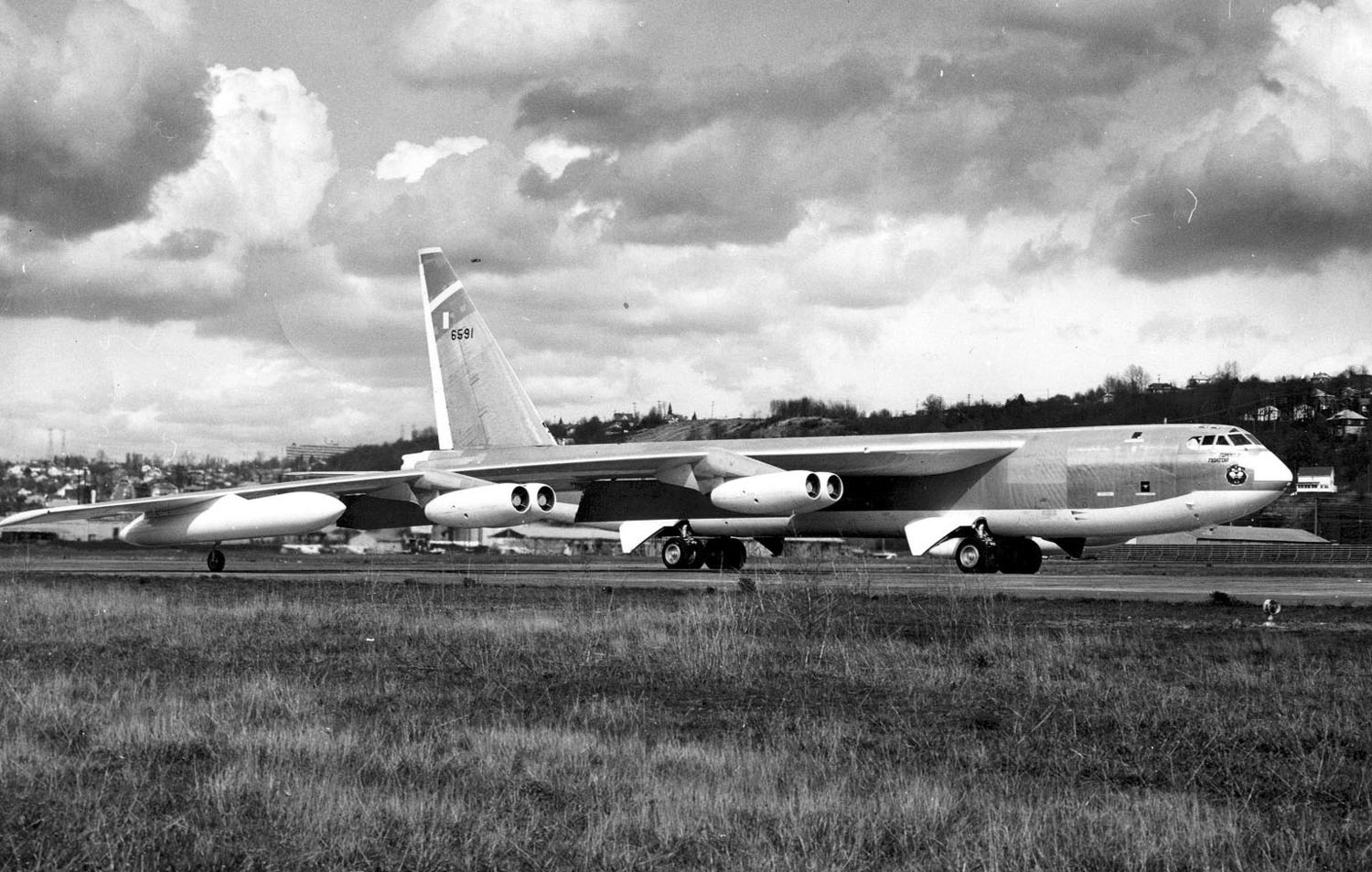 Boeing B-52D-75-BO (SN 56-0591) Tommys Tigator